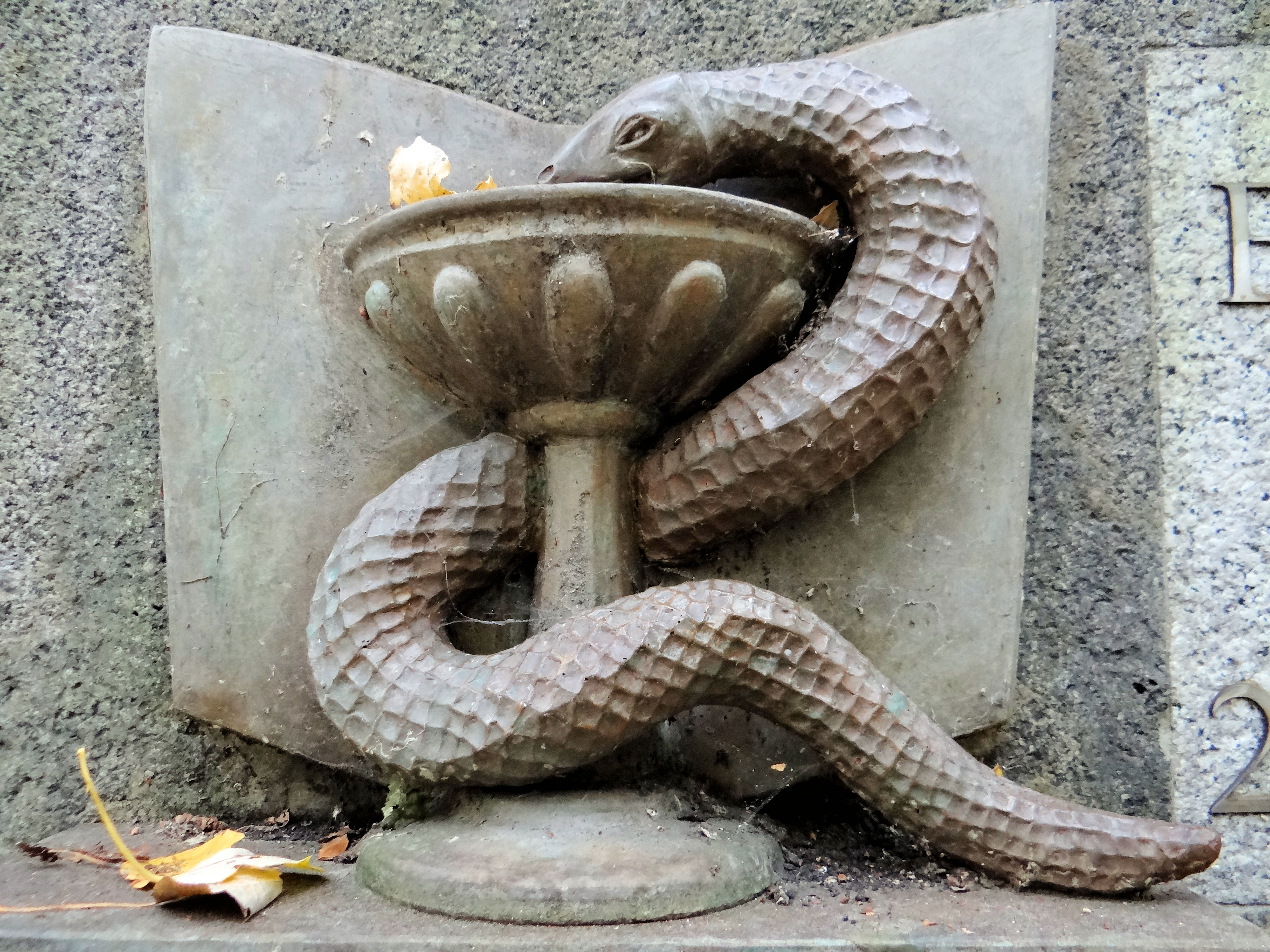 Grave of Edward Flatau at Powązki Jewish Cemetery in Warsaw